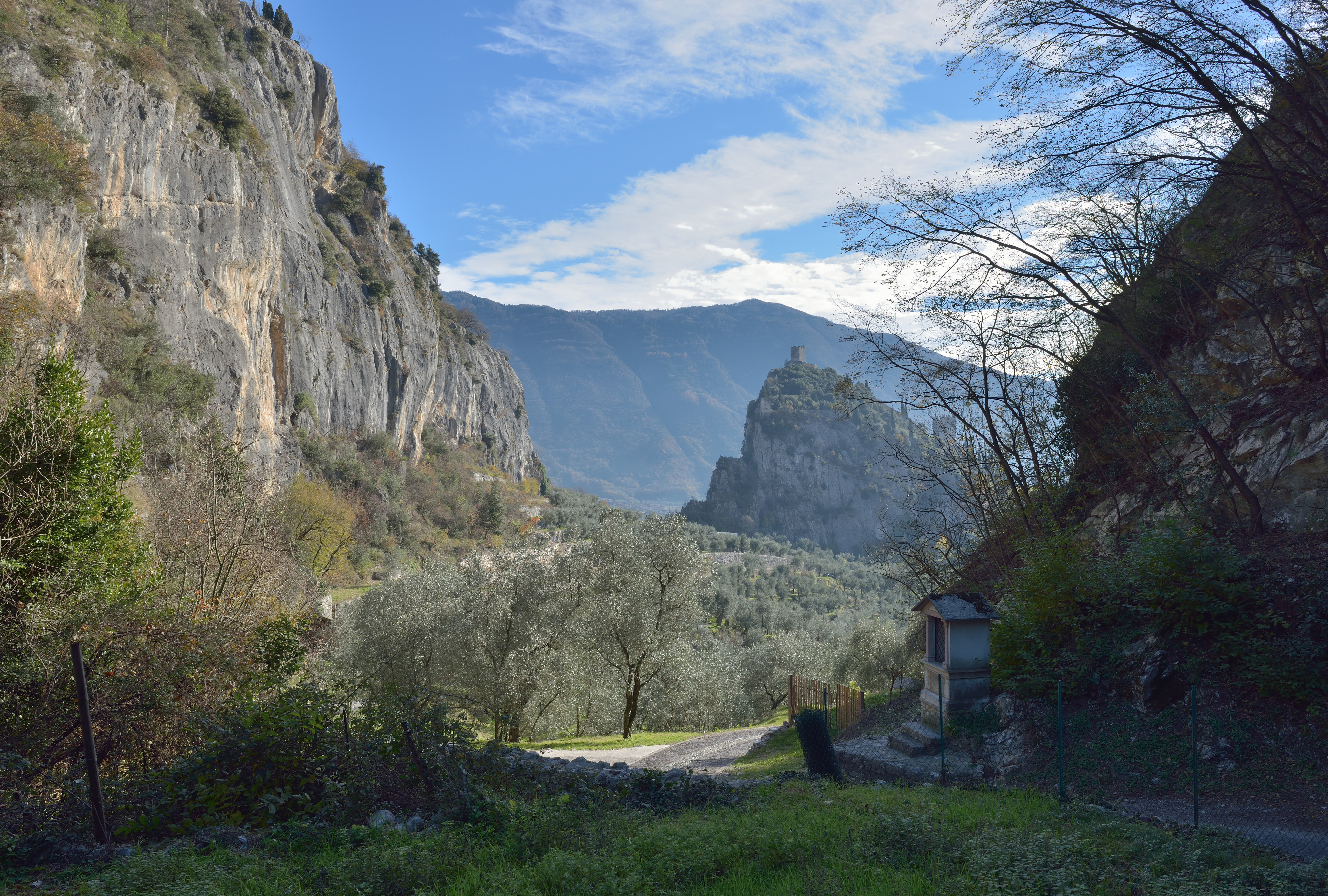 The eleventh station of the Cross in Laghel Arco